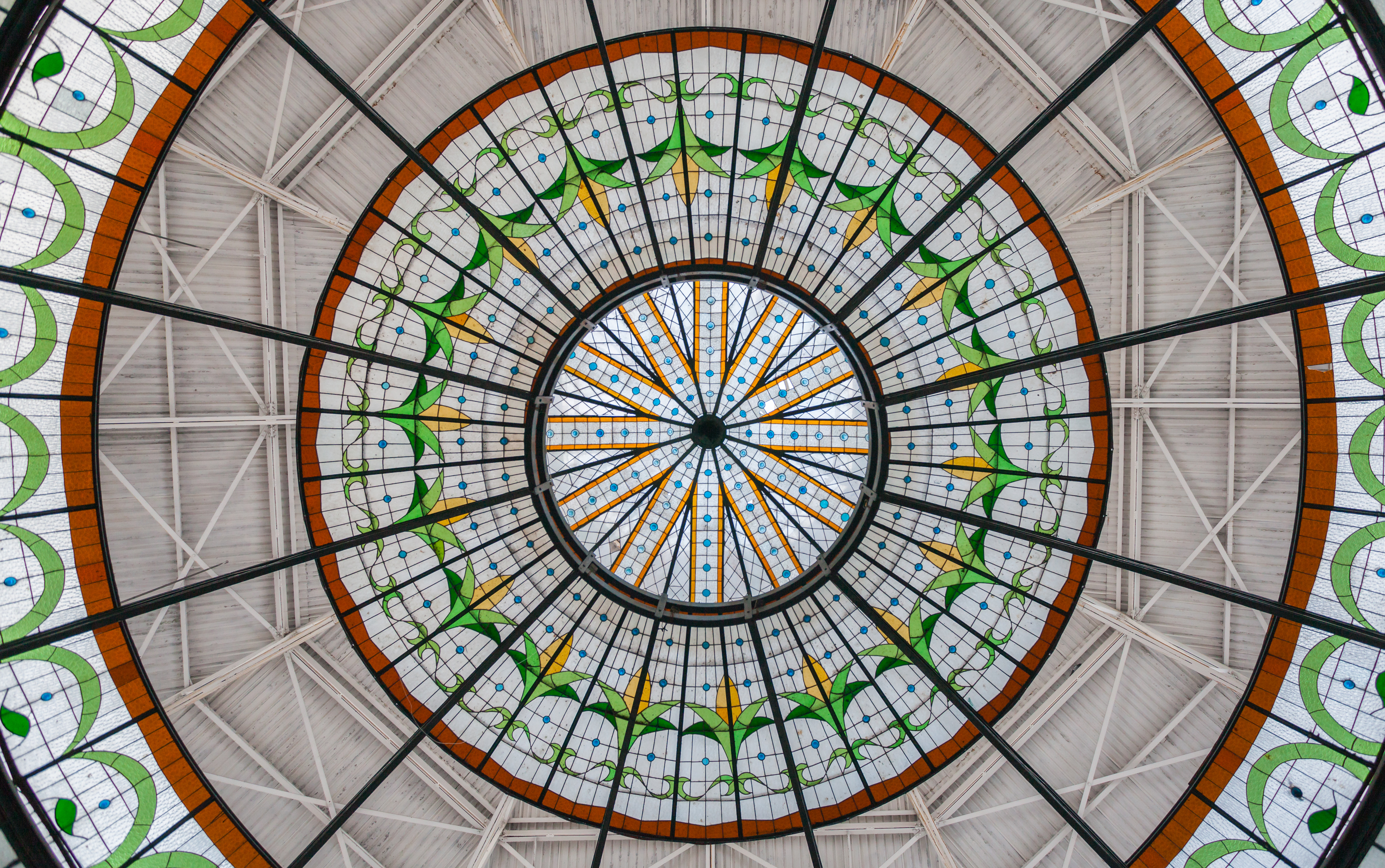 La Victoria Market, Puebla, Mexico